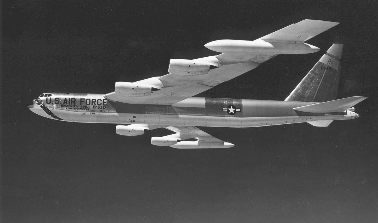 Boeing B-52D-1-BW (SN 55-0049)